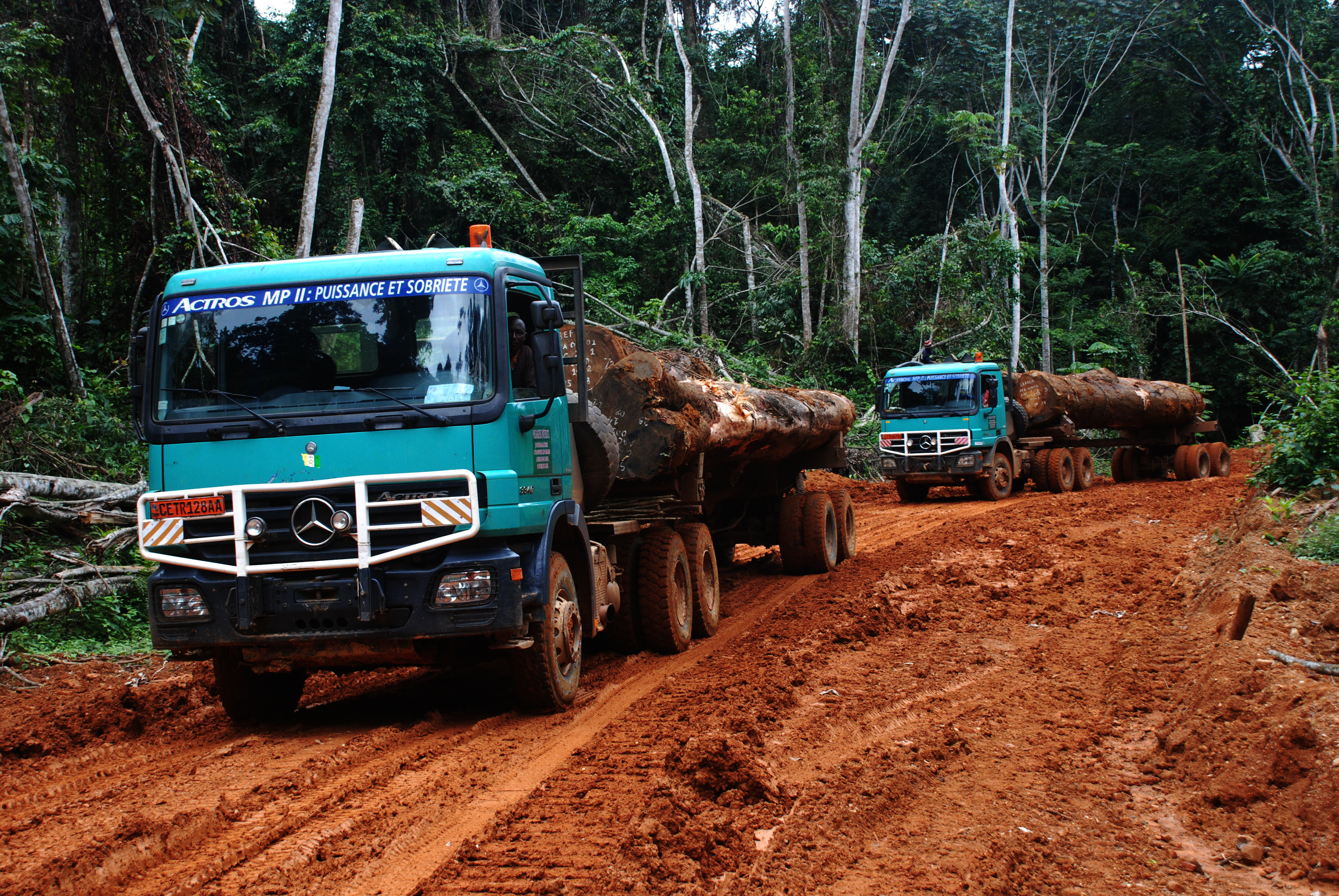 Trucks transporting logs in the forest of Eséka, Cameroon during the rainy season